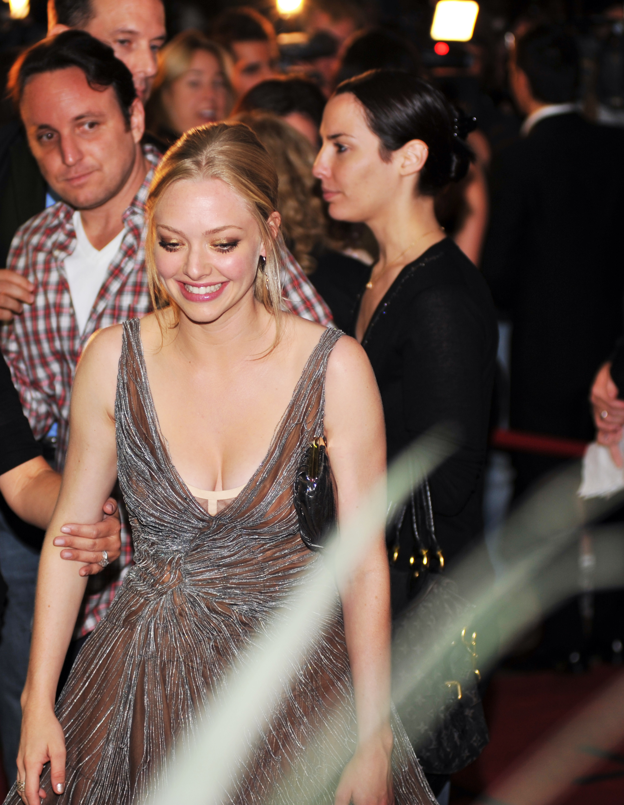 Amanda Seyfried @ Jennifer's Body screening